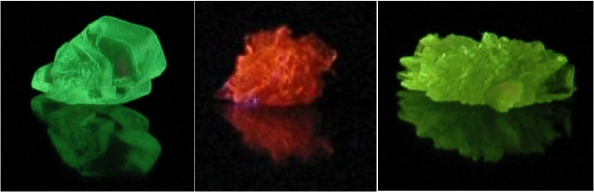 Green, orange and yellow pure organic light emitting crystals